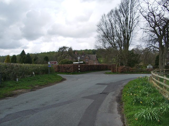 Crossroad at Lanercost